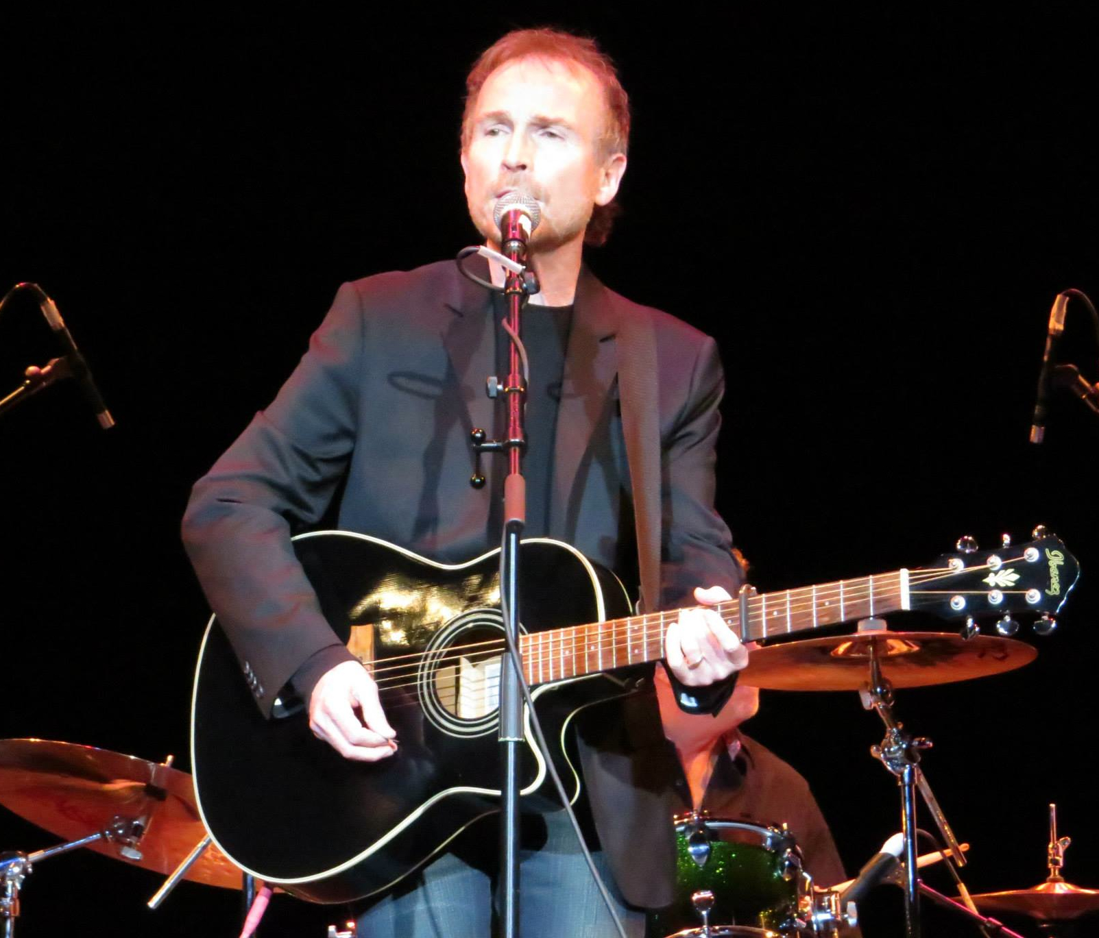 Benny Hester live in Malibu, CA, 2013